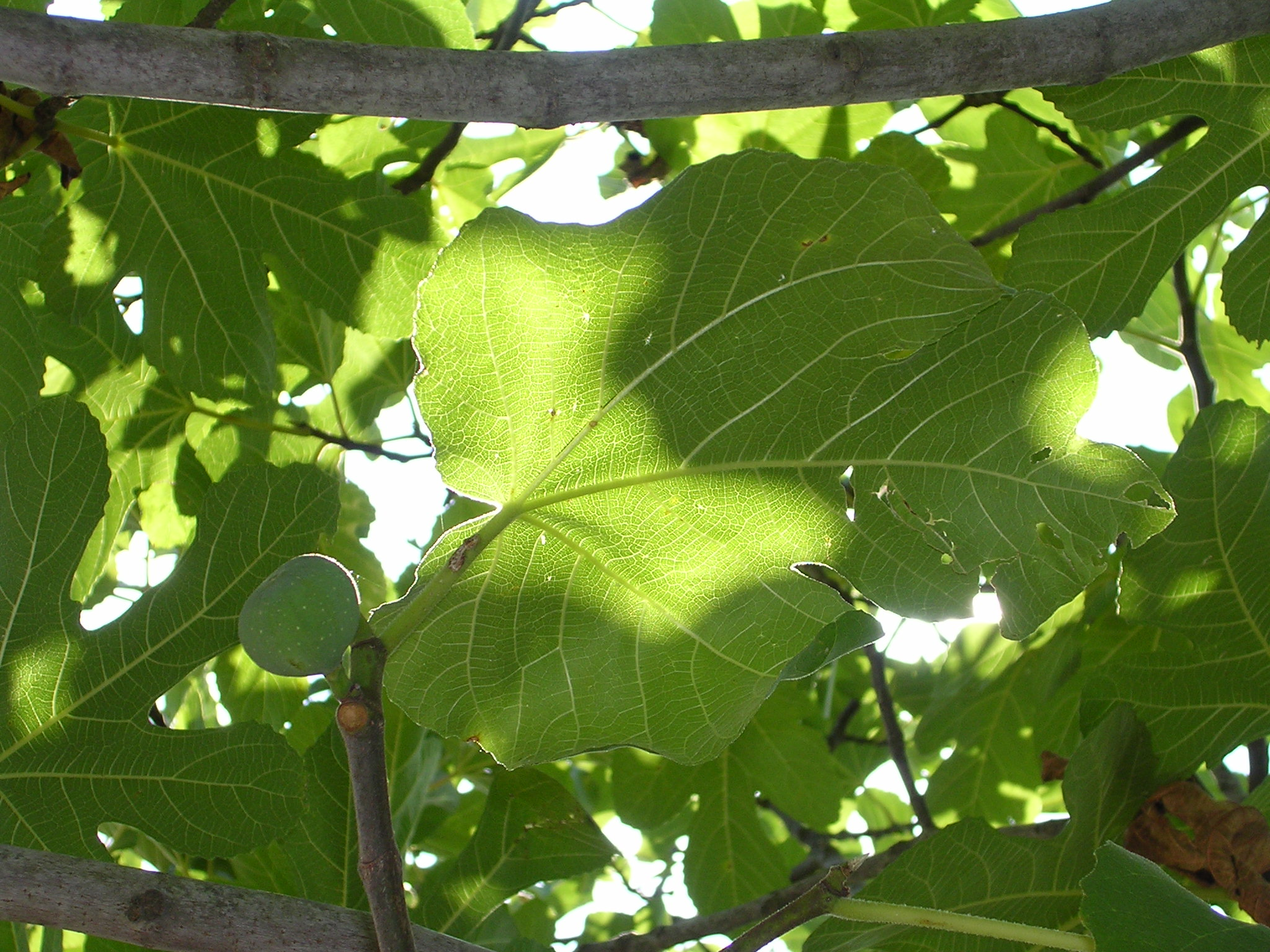 Fig and leaf, Thasos in Greece